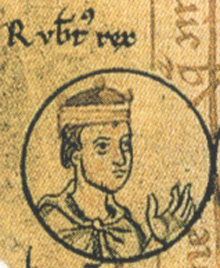 Robert II of France